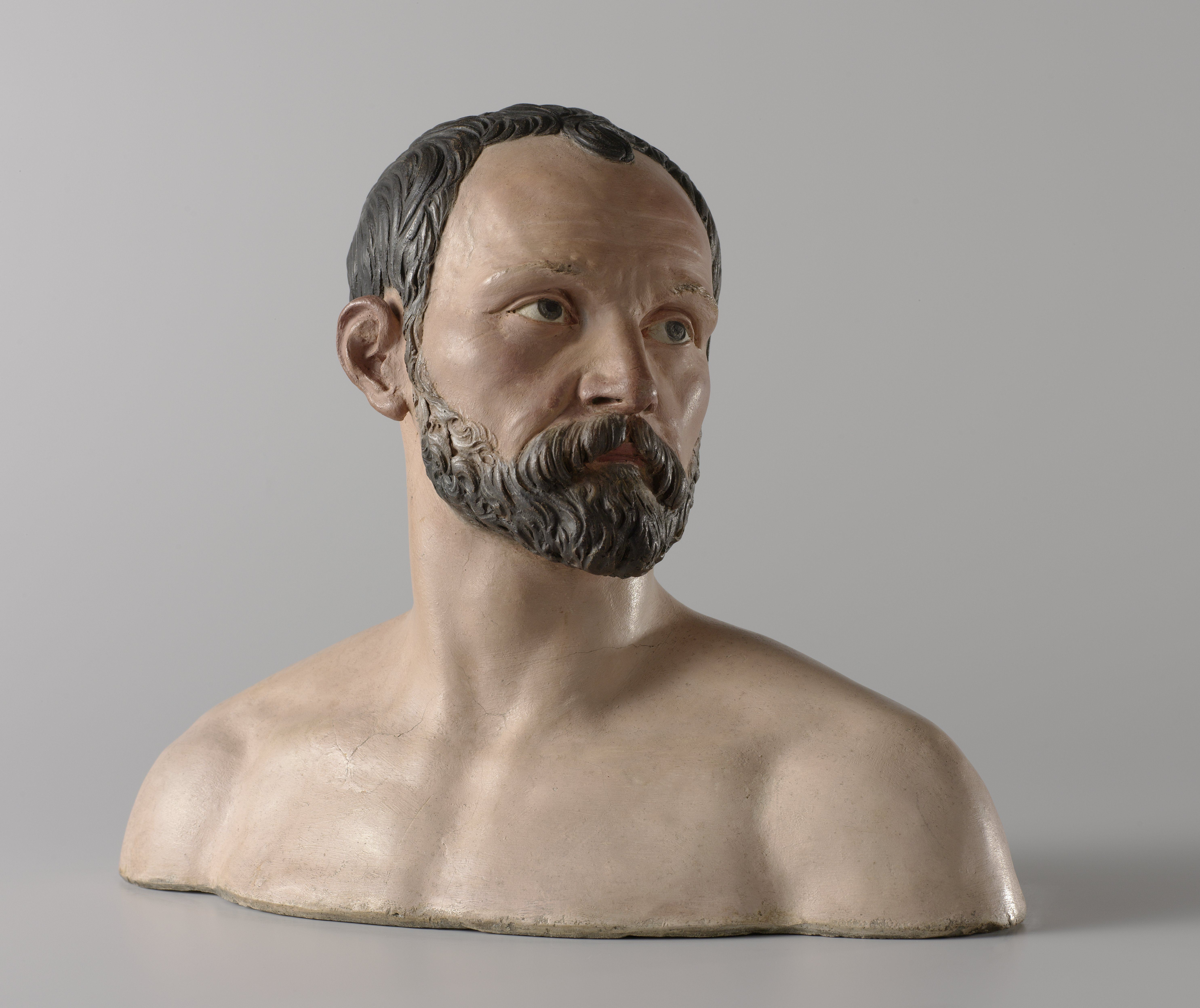 painted Terracotta h 23,0 cm × b 28 cm × d 14 cm Riksmuseum, Objectnummer BK-2000-17